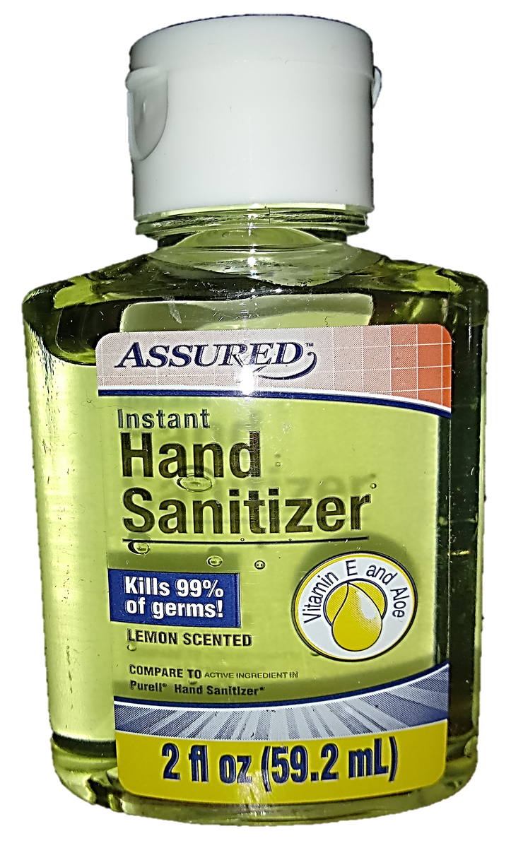 A 2 fl. oz. ASSURED Hand Sanitizer lemon scented, from a Dollar Trees Store.